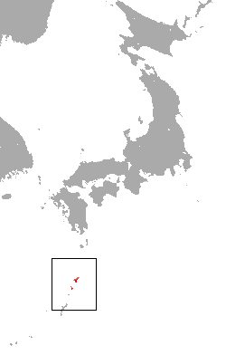 Ryukyu Shrew (Crocidura orii) range